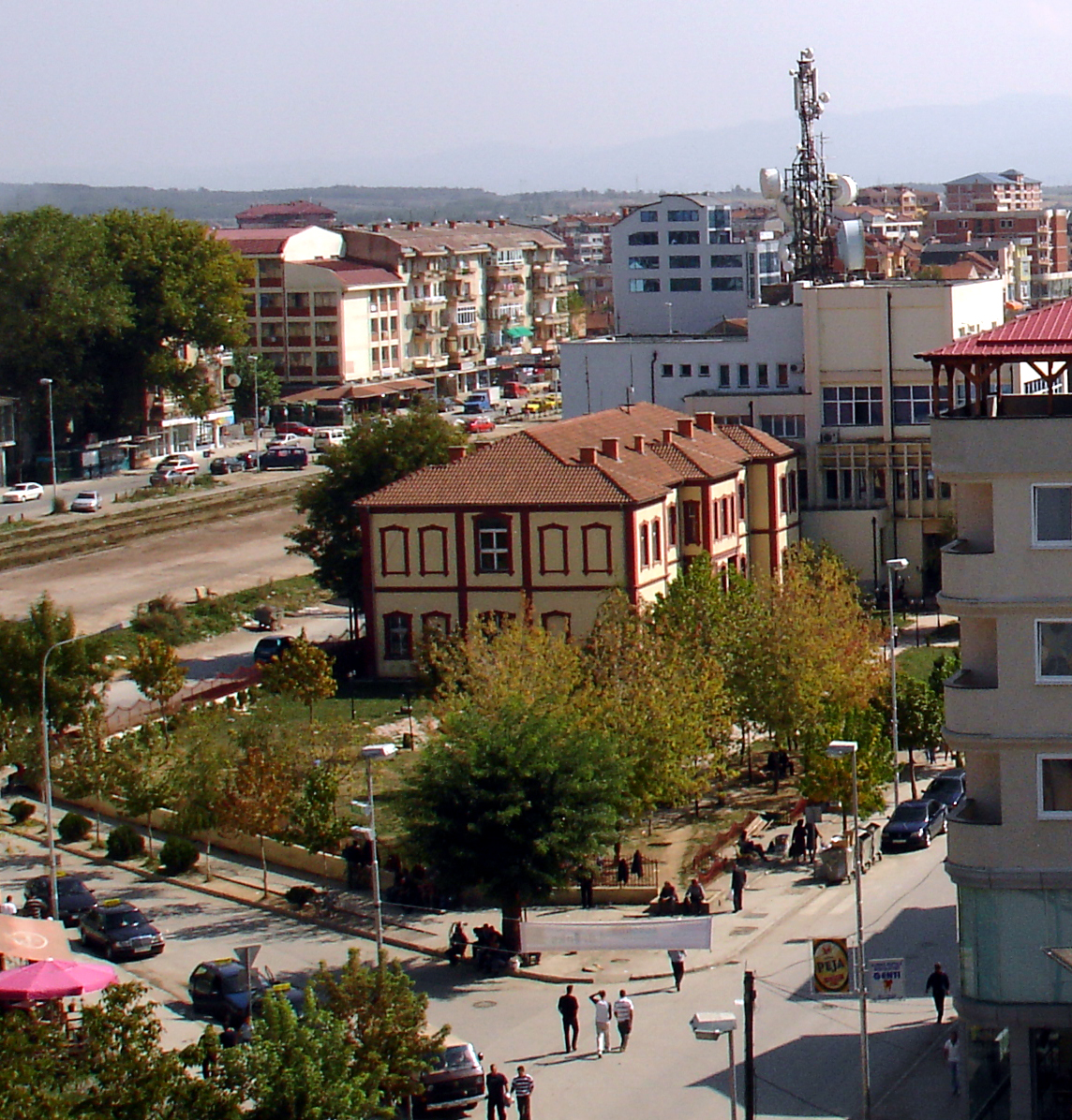 Public Library in Uroševac/Ferizaj Author: G.Haliti Made: By myself